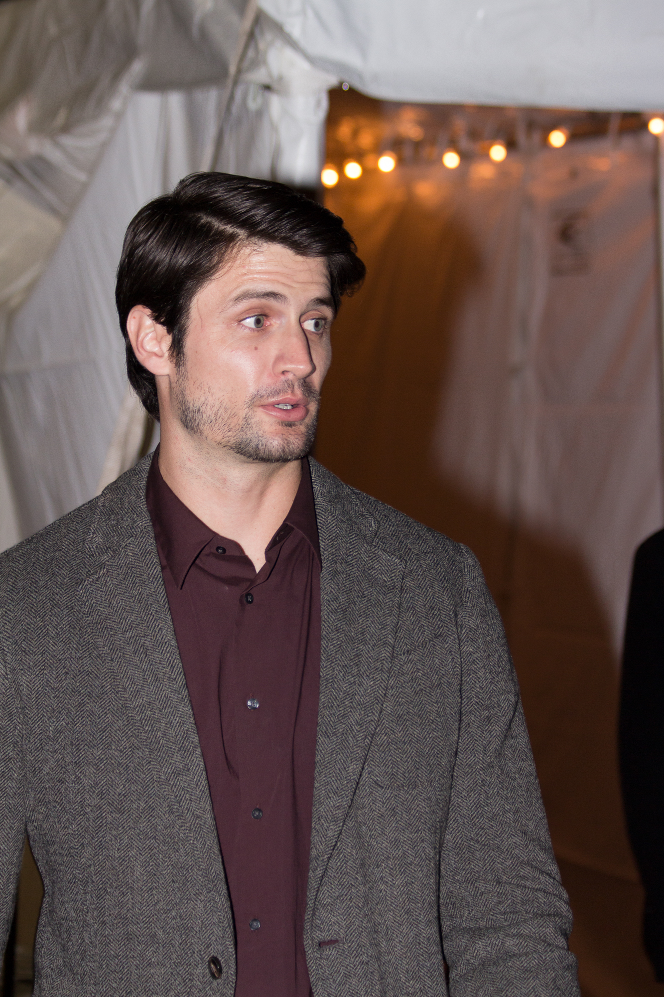 James at the 2013 Toronto International Film Festival.